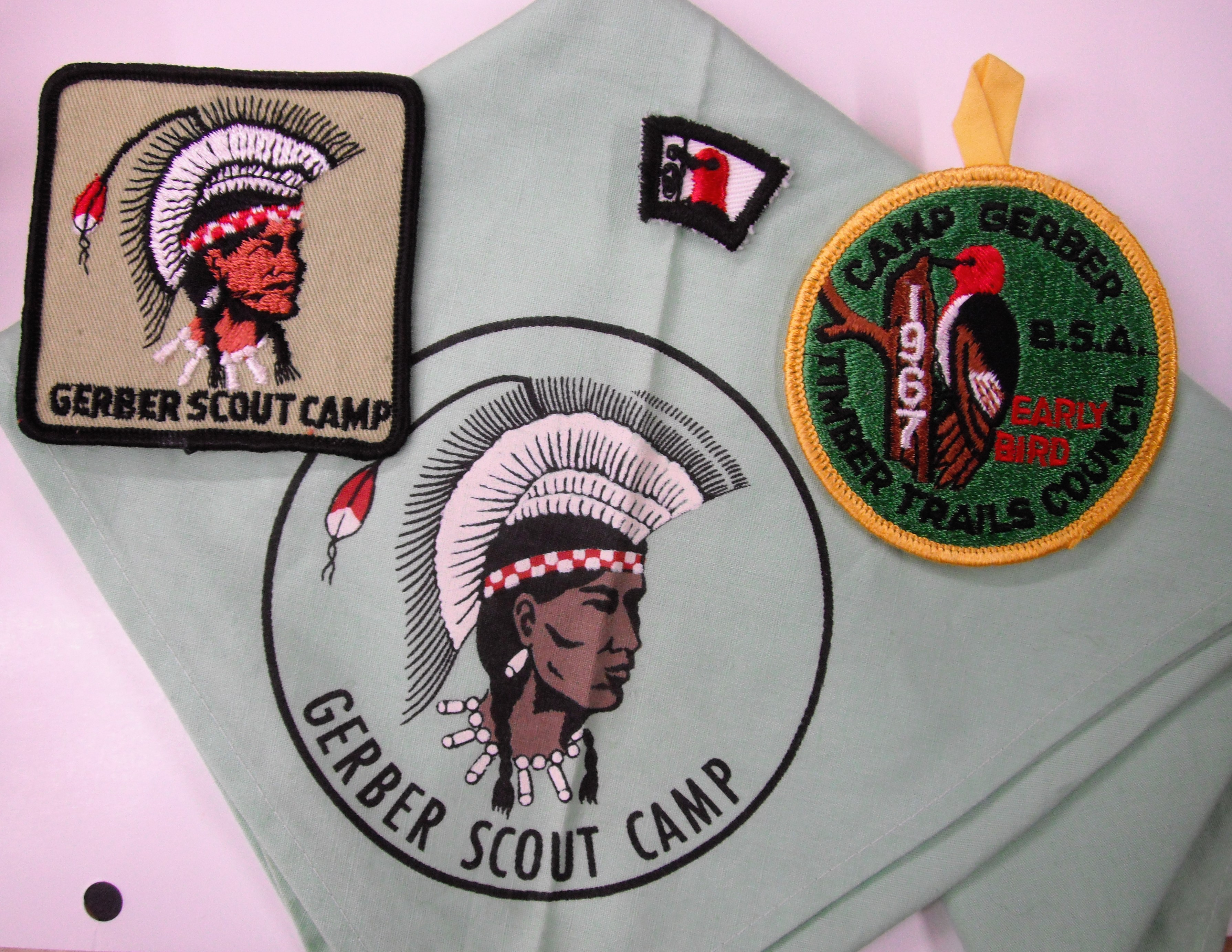 Indian and wood pecker logo used on insignia during the 60's and early 70's